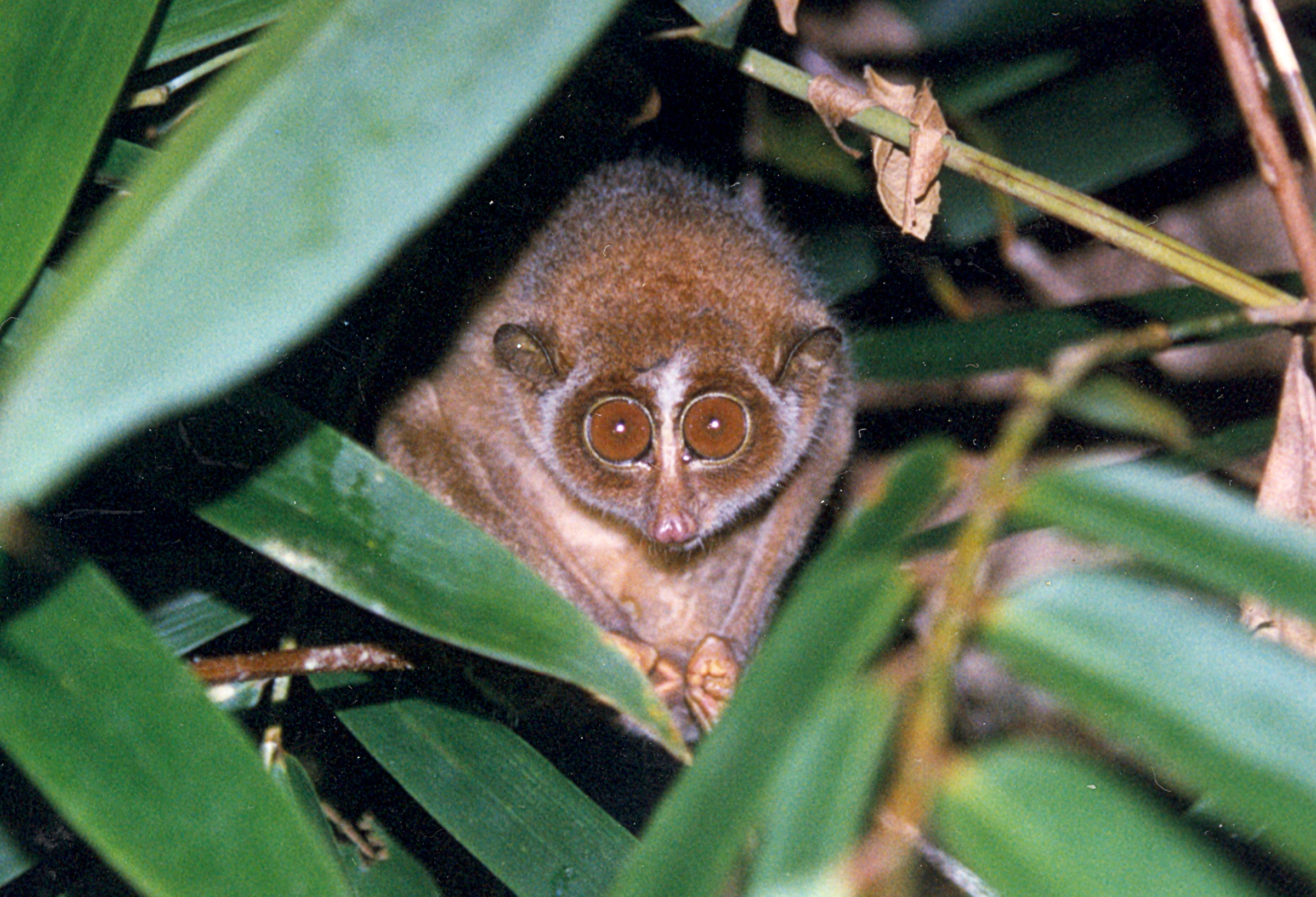 Red slender loris (Loris tardigradus tardigradus) from southwest Sri Lanka